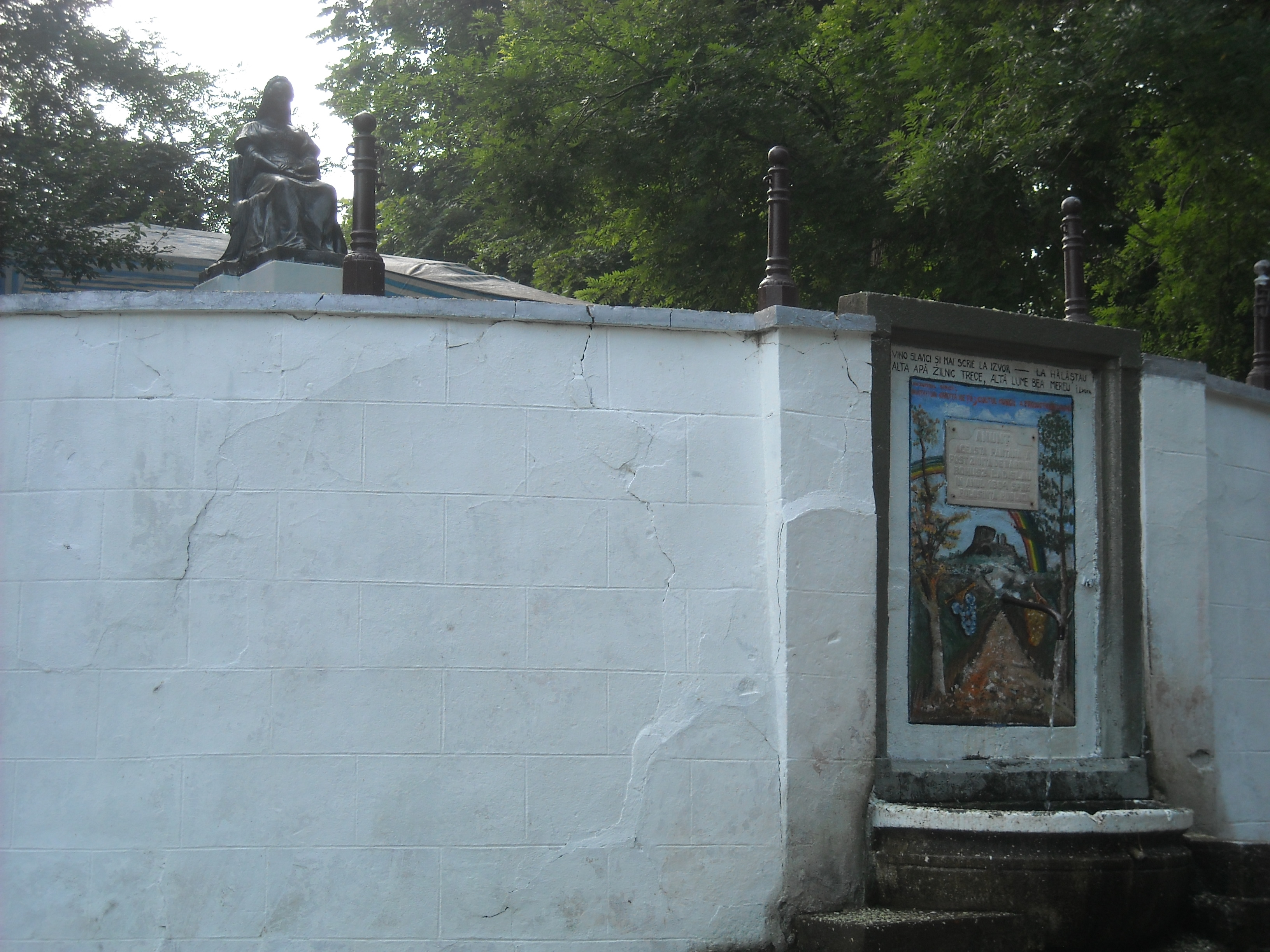 well in Şiria/Világos/Hellburg, sunk in 1884 by Antónia Szőgyény, Mrs. János Bohus